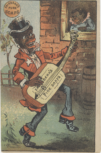 Persistent URL: Subject (TGM): Afro-Americans; Ethnic stereotypes; Musical instruments; Fictitious characters; Household soap; Cosmetics & soap; Chemical industry; Keywords: Queensware Glassware Woodenware Staple and fancy groceries